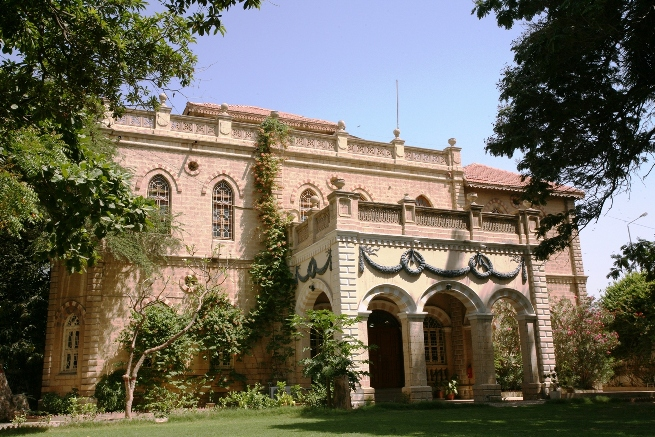 Bay View High College Campus